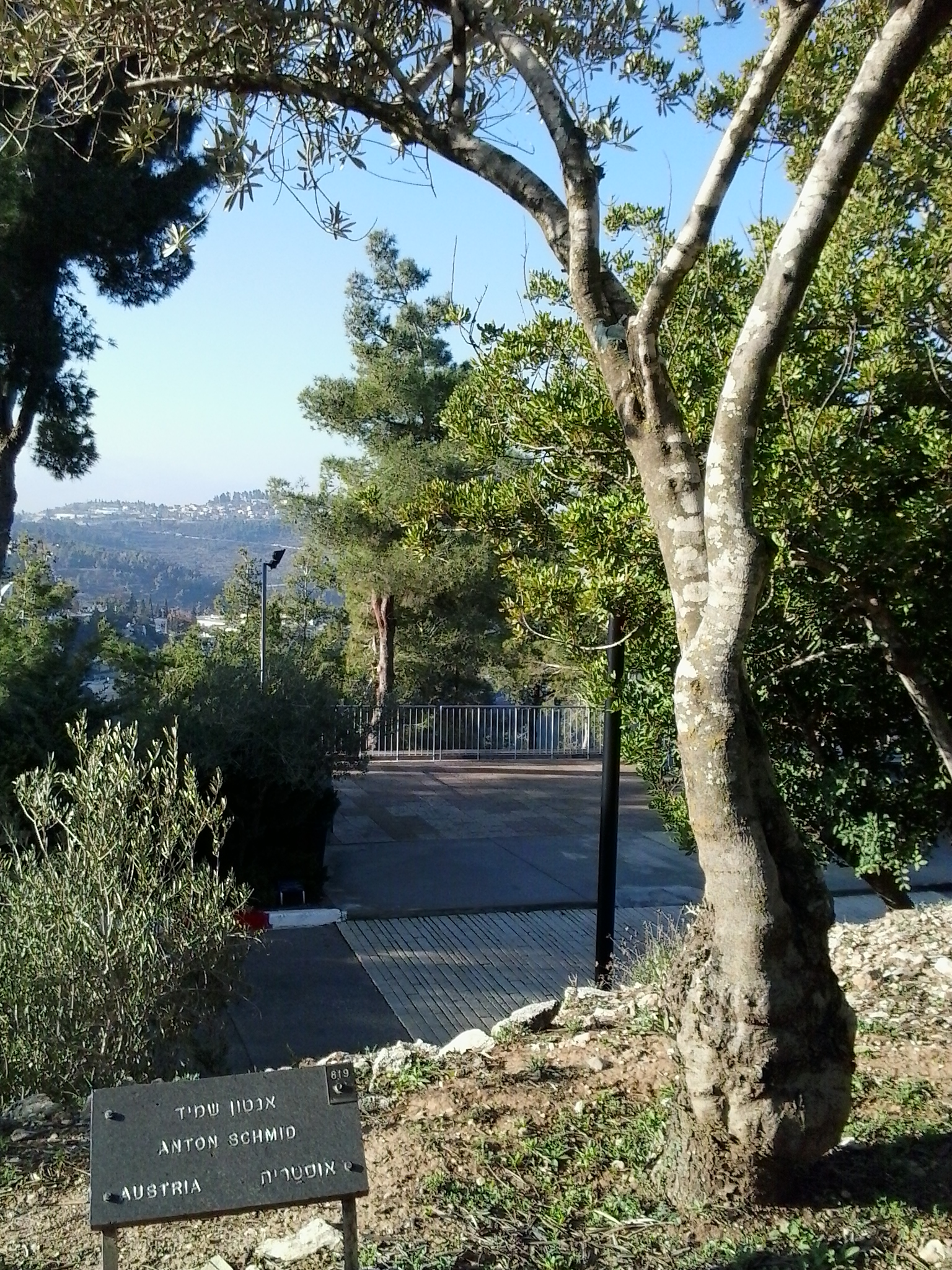 The tree planted at Yad Vashem honoring Righteous Among the Nations Anton Schmid